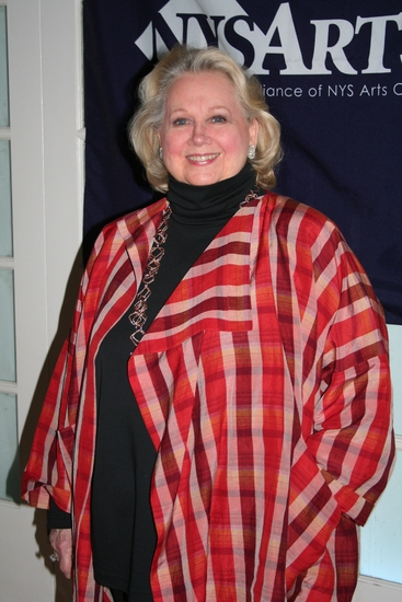 NYS Arts Honoree Tony Award Winner Barbara Cook